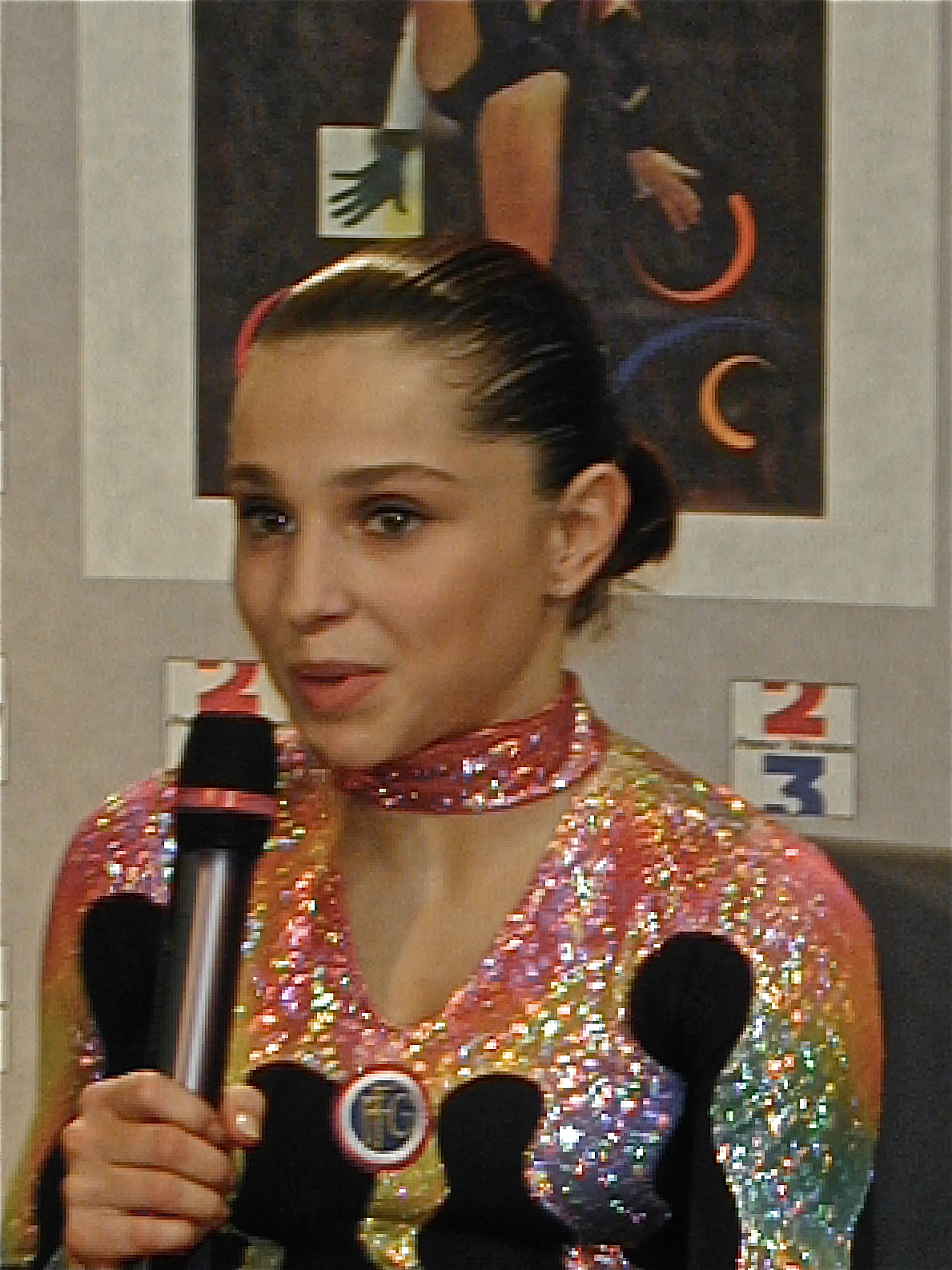 Doing a media interview for France Télévisions during the 2000 European Gymnastics Championships in Paris, France.